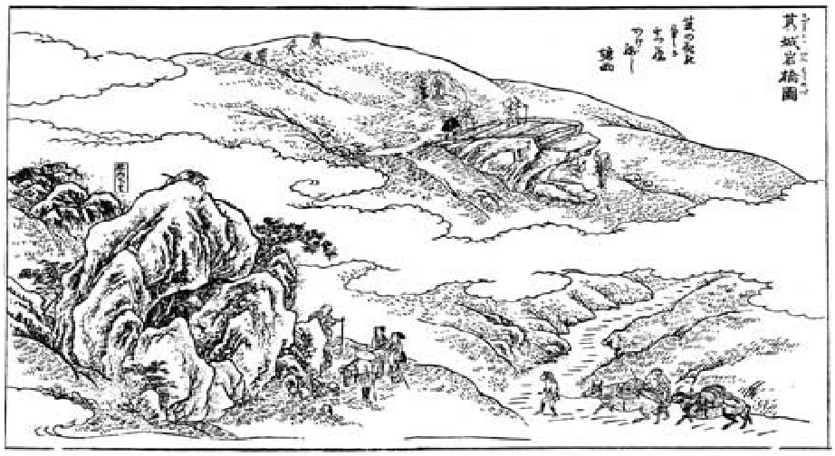 Katsuragi Iwahashi Zu ("Picture of Iwahashi in Katsuragi")